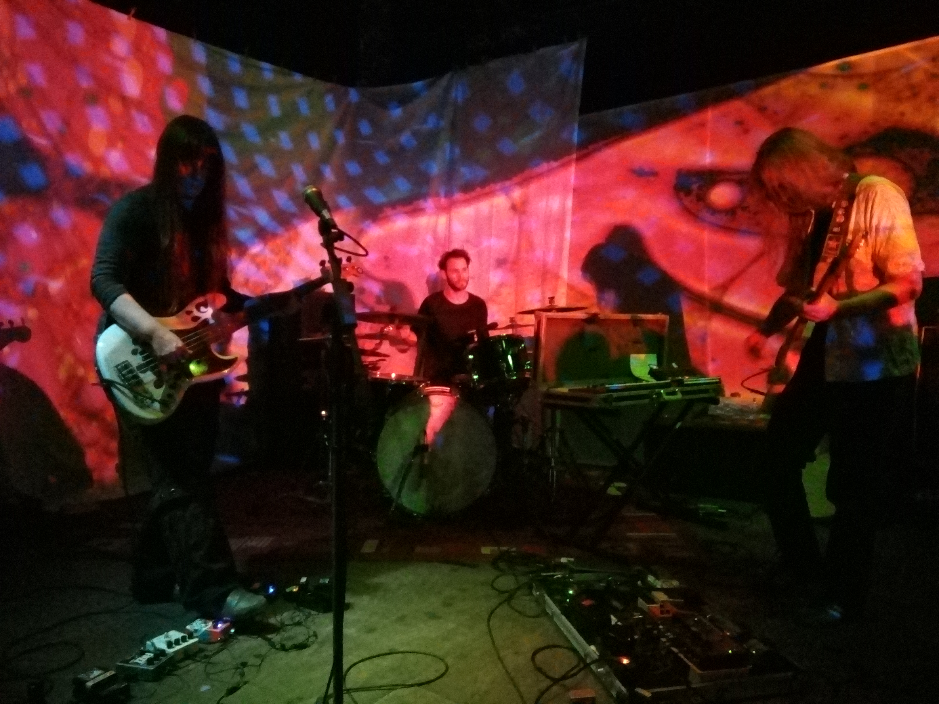 Electric Moon during a concert at Trauma, Marburg, Germany check usage